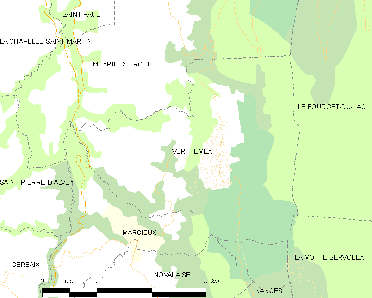 Map of French municipality Verthemex